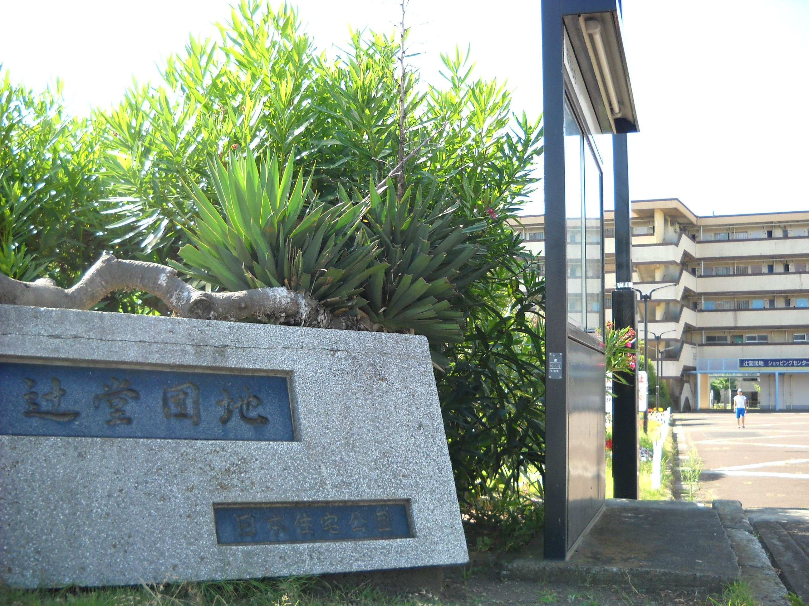 Tsujido Danchi, Fujisawa city, Kanagawa, Japan.